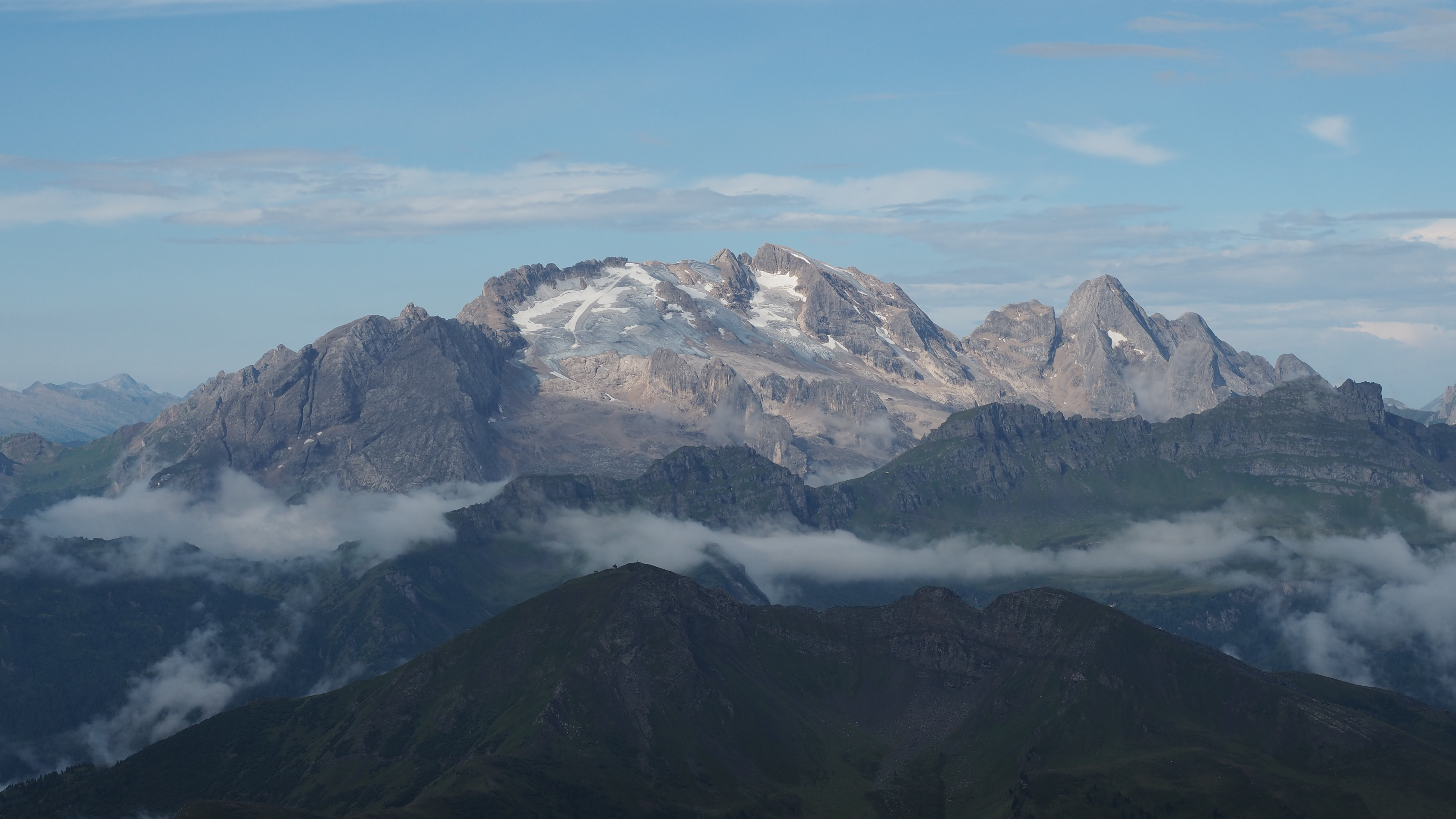 Marmolada from Rifugio Lagazuoi